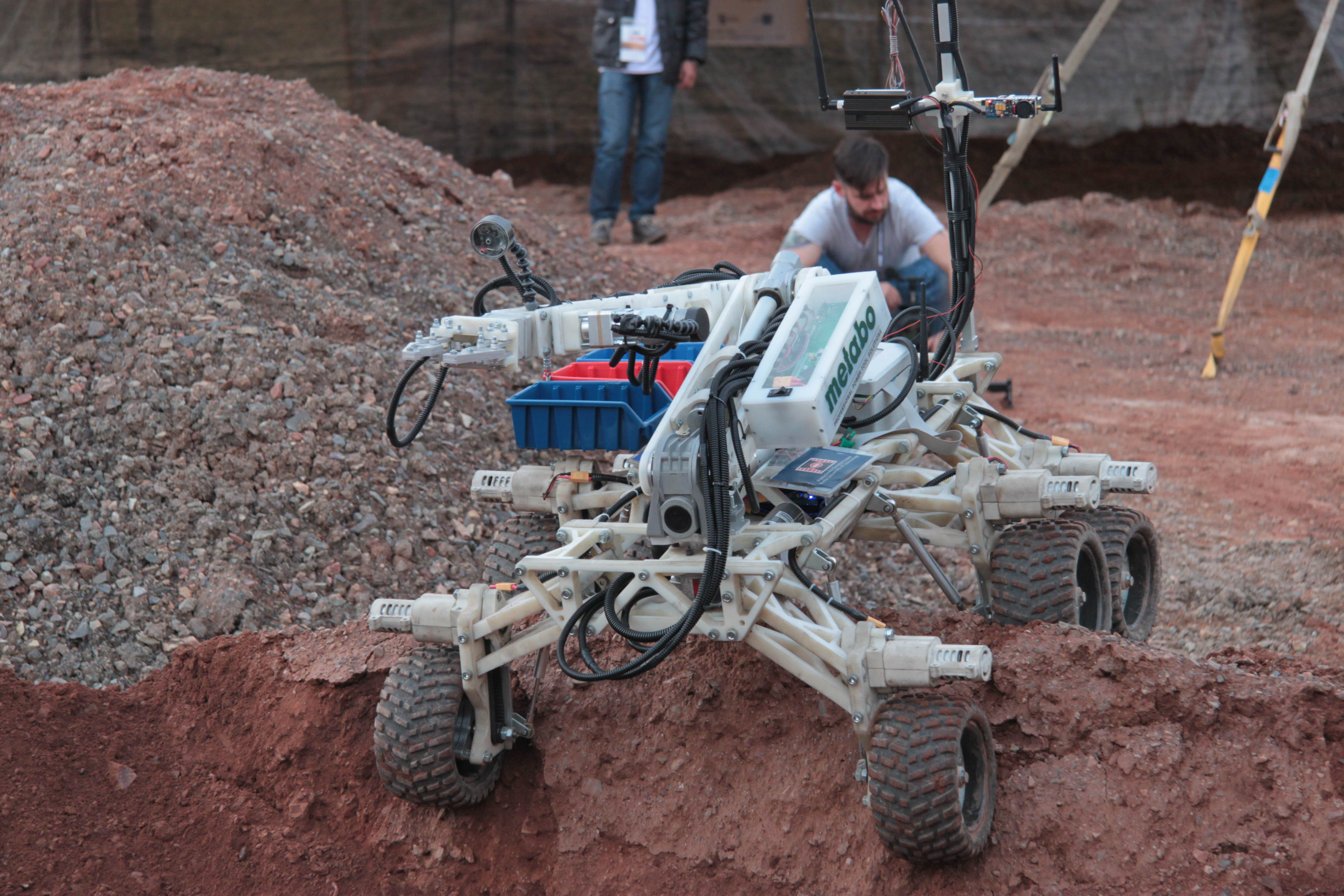 European Rover Challenge 2015, 5-6 September, Podzamcze near Chęciny near Kielce, Poland. The 5th place rover "FUMAR", built and run by the Polish Politechnika Świętokrzyska "Impuls" team from Kielce (Wydział Mechatroniki i Budowy Maszyn). 1st day, during the assistance task (find and object, grab it, transport and put down in a dedicated place).